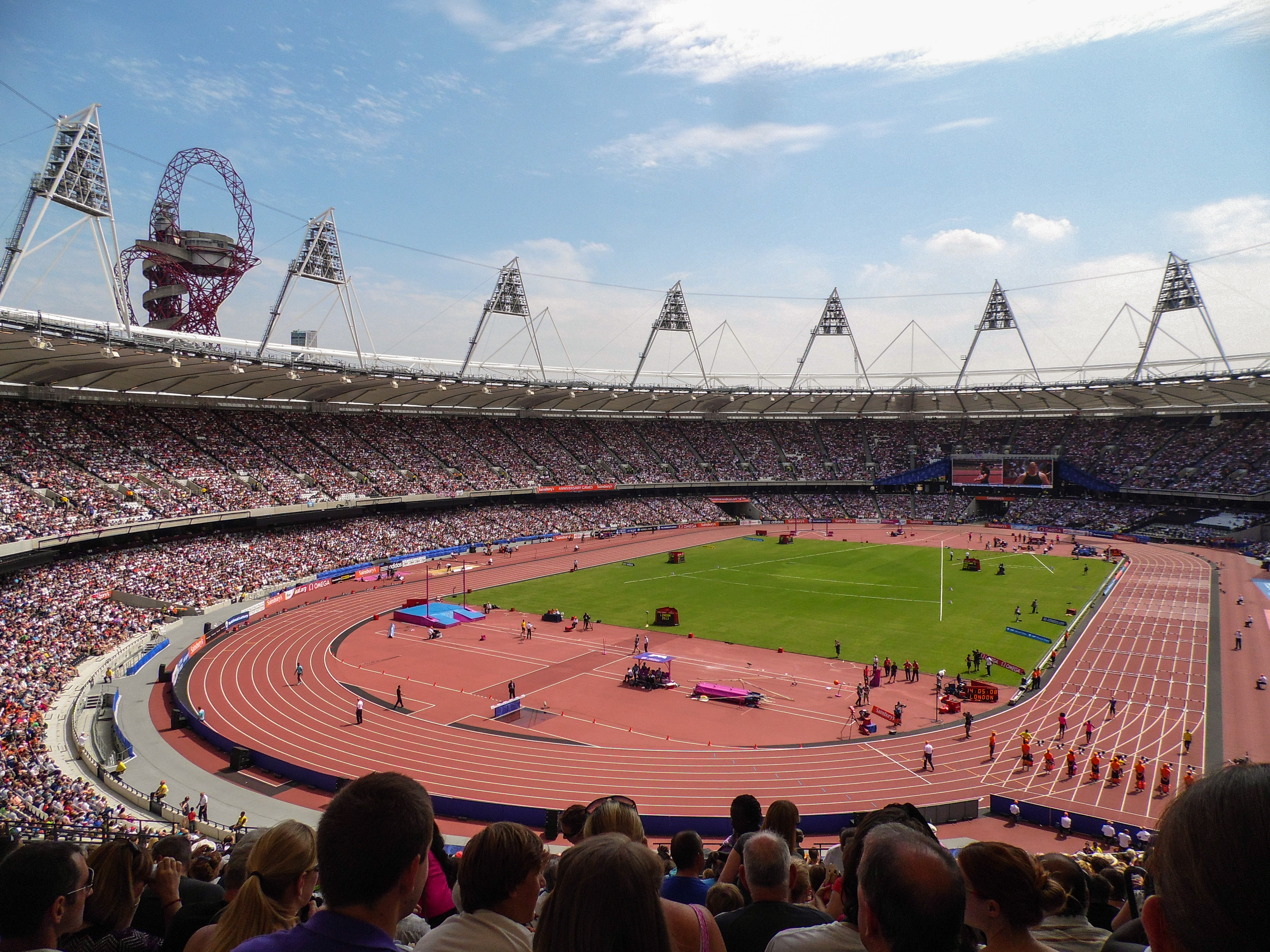 SAM_0424_edited